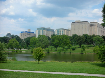 Skyline of the Central West End in St. Louis, as seen from Forest Park.